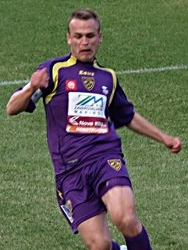 Dalibor Volaš at Ljudski vrt 2008 opening match